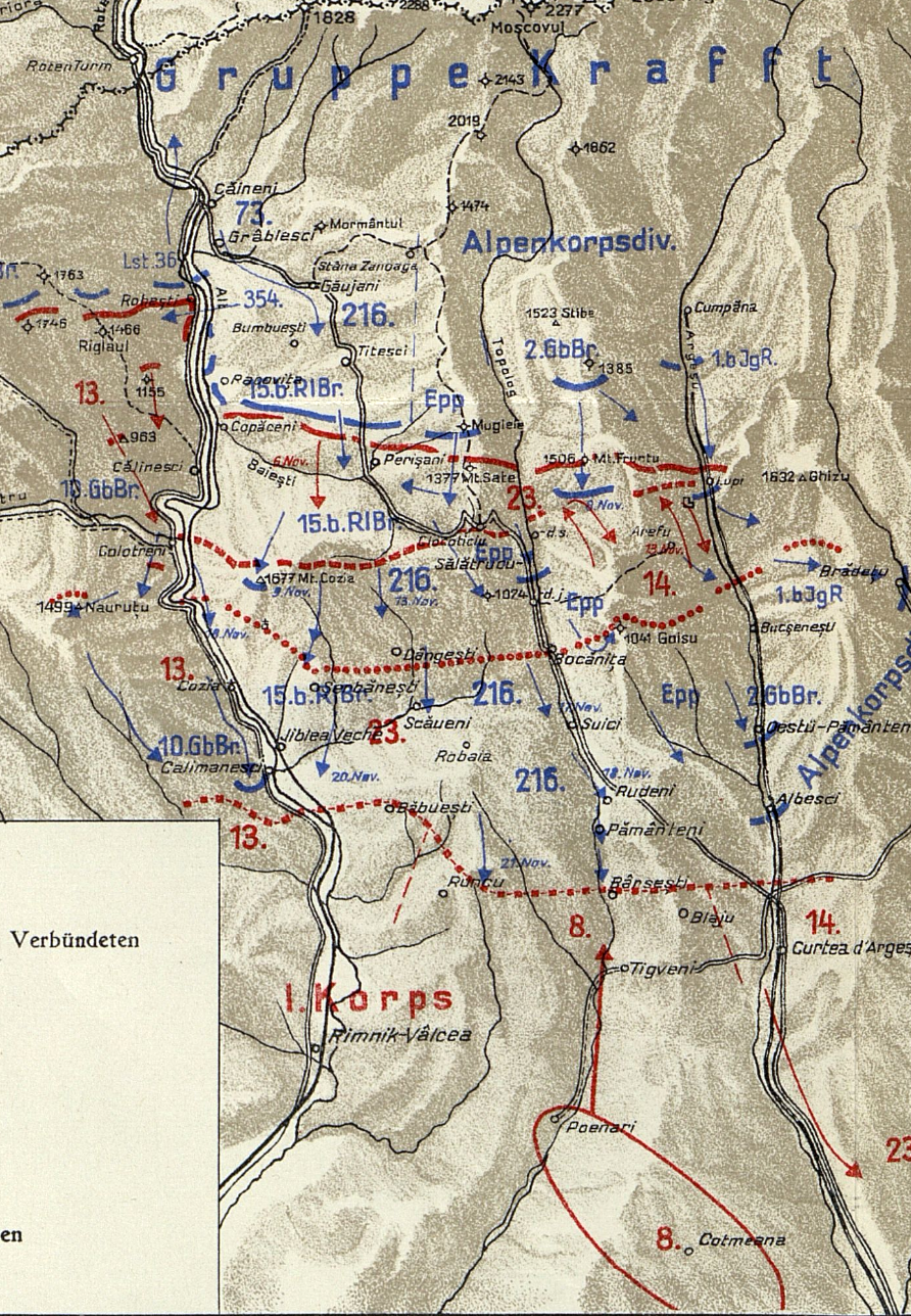 Romanian Front in WWI - The second phase of the battle from Valea Oltului, november 1916